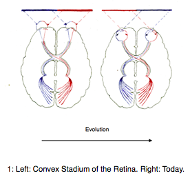 During evolution existed a convex stadium of the retina.